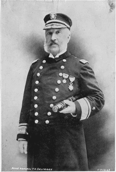 Photograph of Rear Admiral Thomas O. Selfridge, Jr, a United States Navy officer.